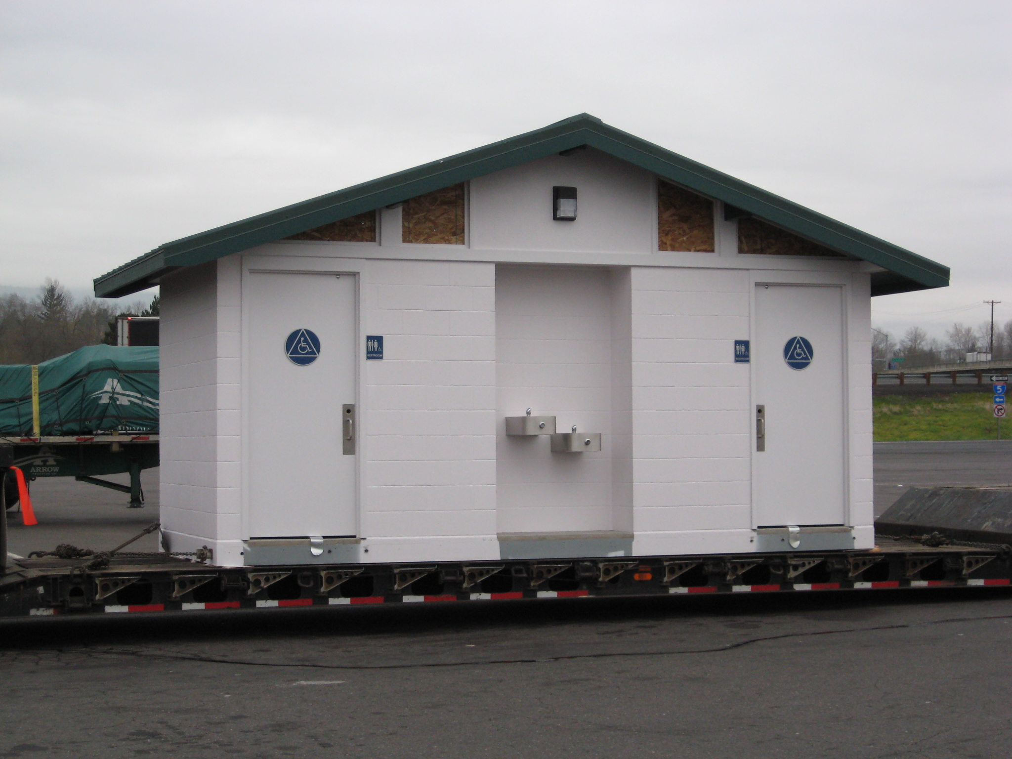 A recently-built brick toilet facility on a flatbed towtruck.